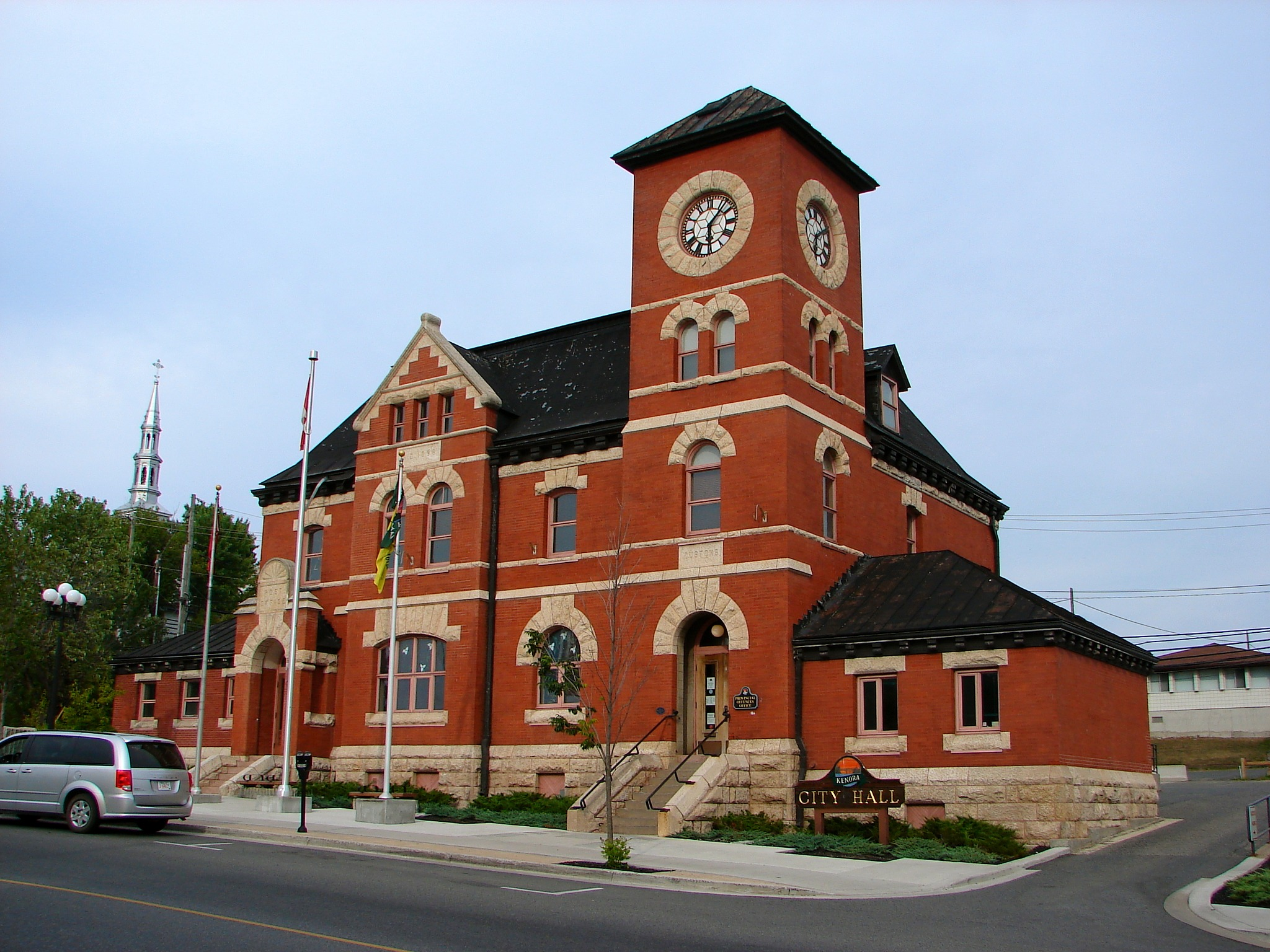 Town Hall of Kenora, Ontario, Canada